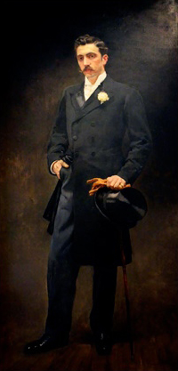 Félix de la Torre y Eguía, by Joaquín Sorolla (1894).